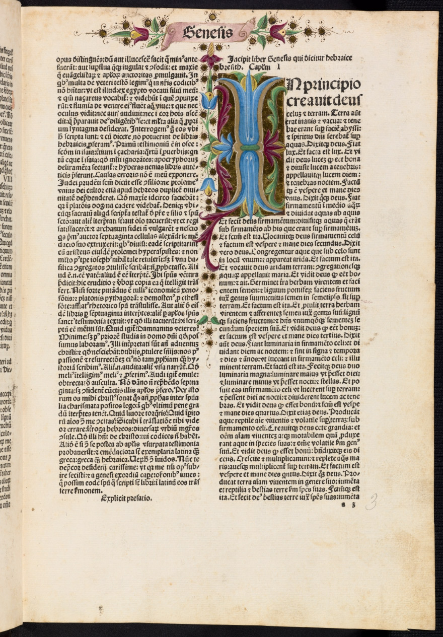 Page from a Latin Bible dated 1481, containing the end of a prologue and the beginning of Genesis. Digitised by the Polonsky Foundation Digitization Project. Shelfmark: Bib. Lat. 1481 d.1. Folio: a 4 r. More provenance information at